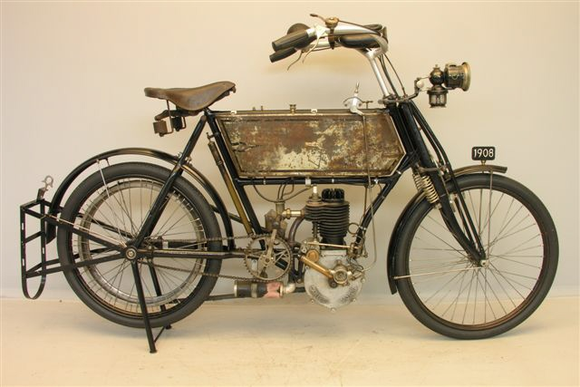 Ariel 3 hp motorcycle 1908